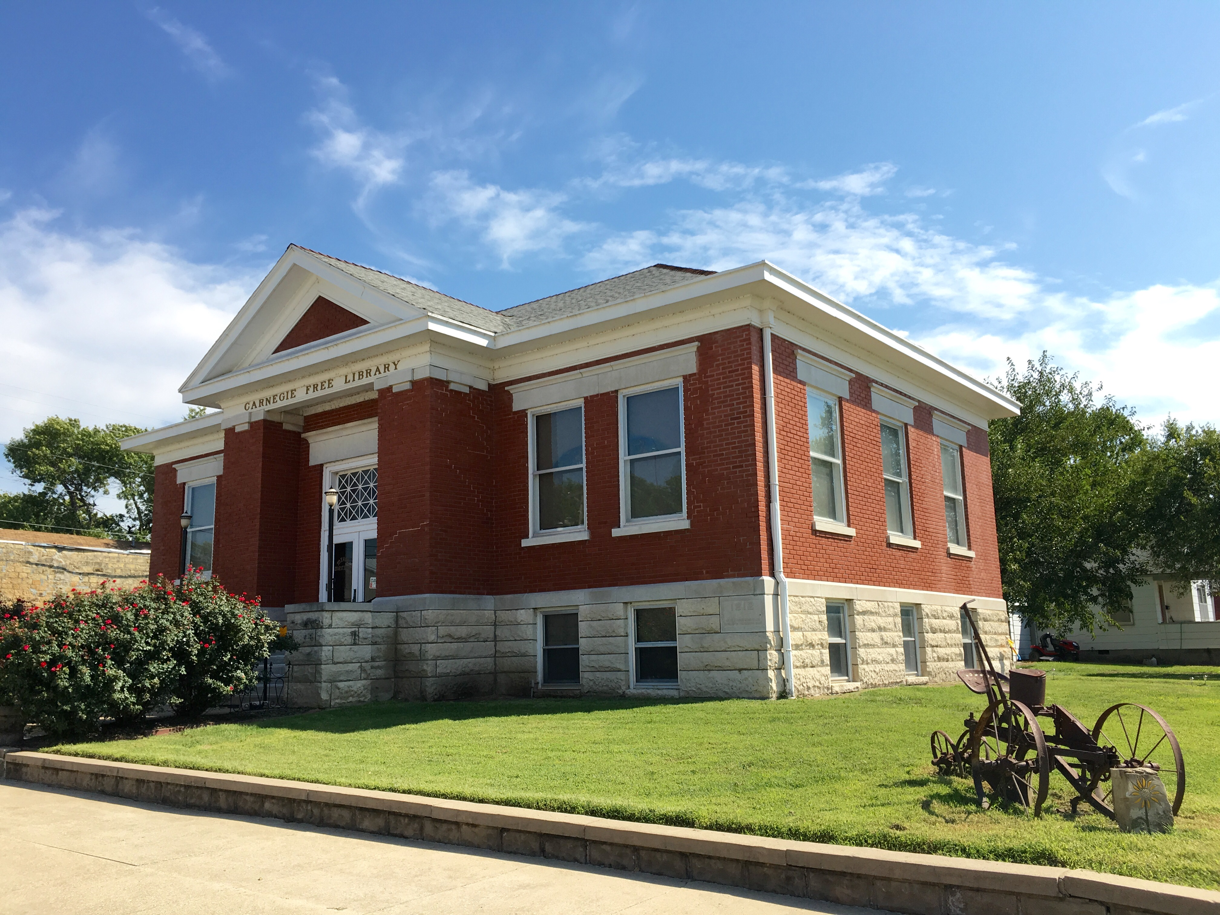 Carnegie Free Library, Burlington, Kansas, Coffee County 201 N 3rd Street, Burlington, KS This is the view from the corner which includes an antique horse-drawn hoe & seeder on the surrounding lawn.